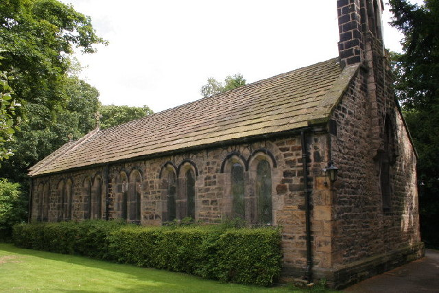 St Paul's Church, Esholt. Looking SE.